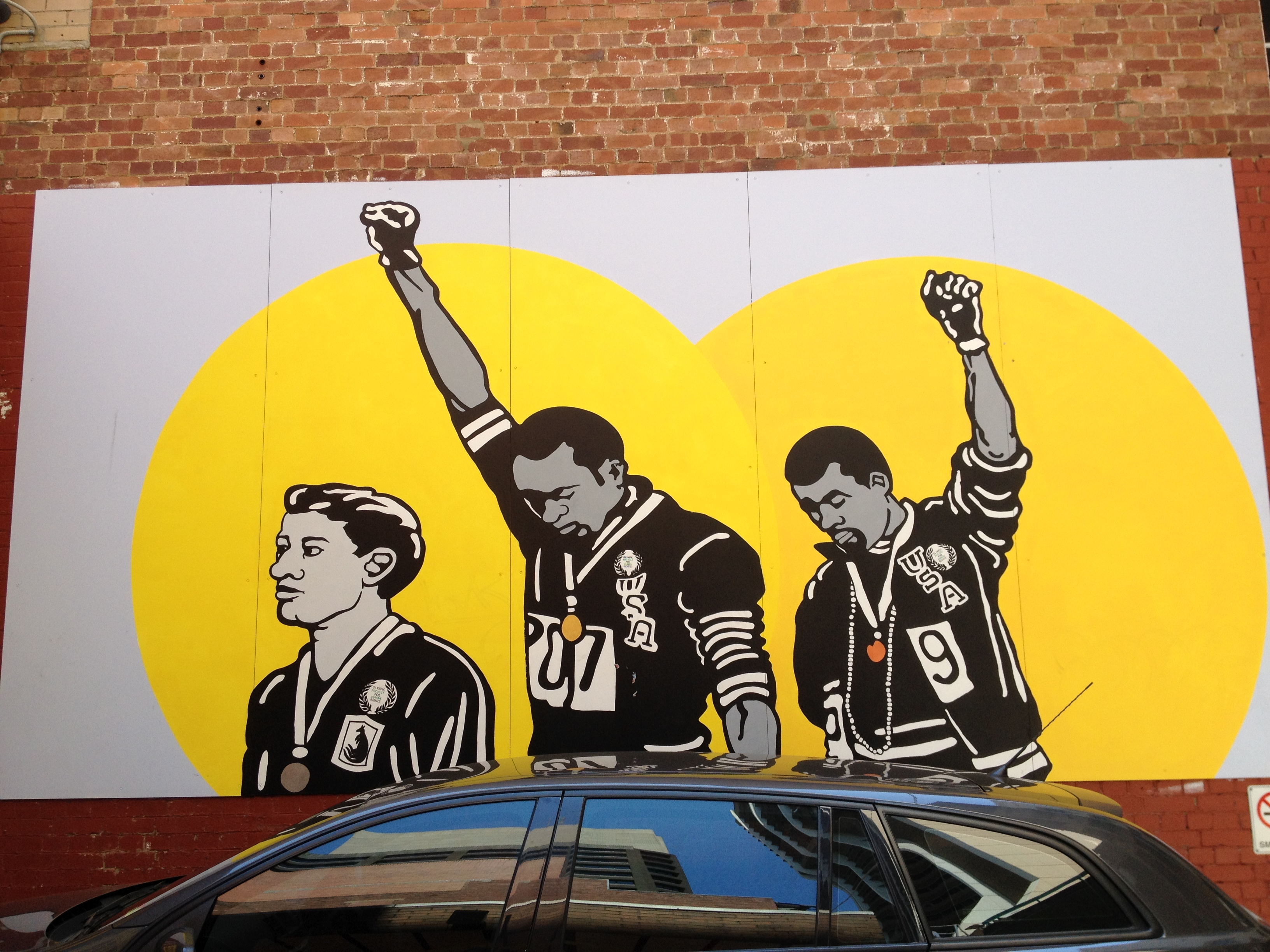 Richard Bell and Emory Douglas, ‘White Hero for Black Australia’ mural, Burnett Lane, Brisbane, Australia